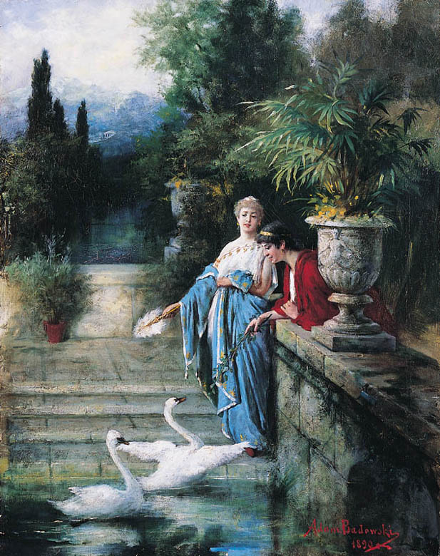 Adam Badowski (1857 - 1903). In the Roman Park, 1890 oil, canvas